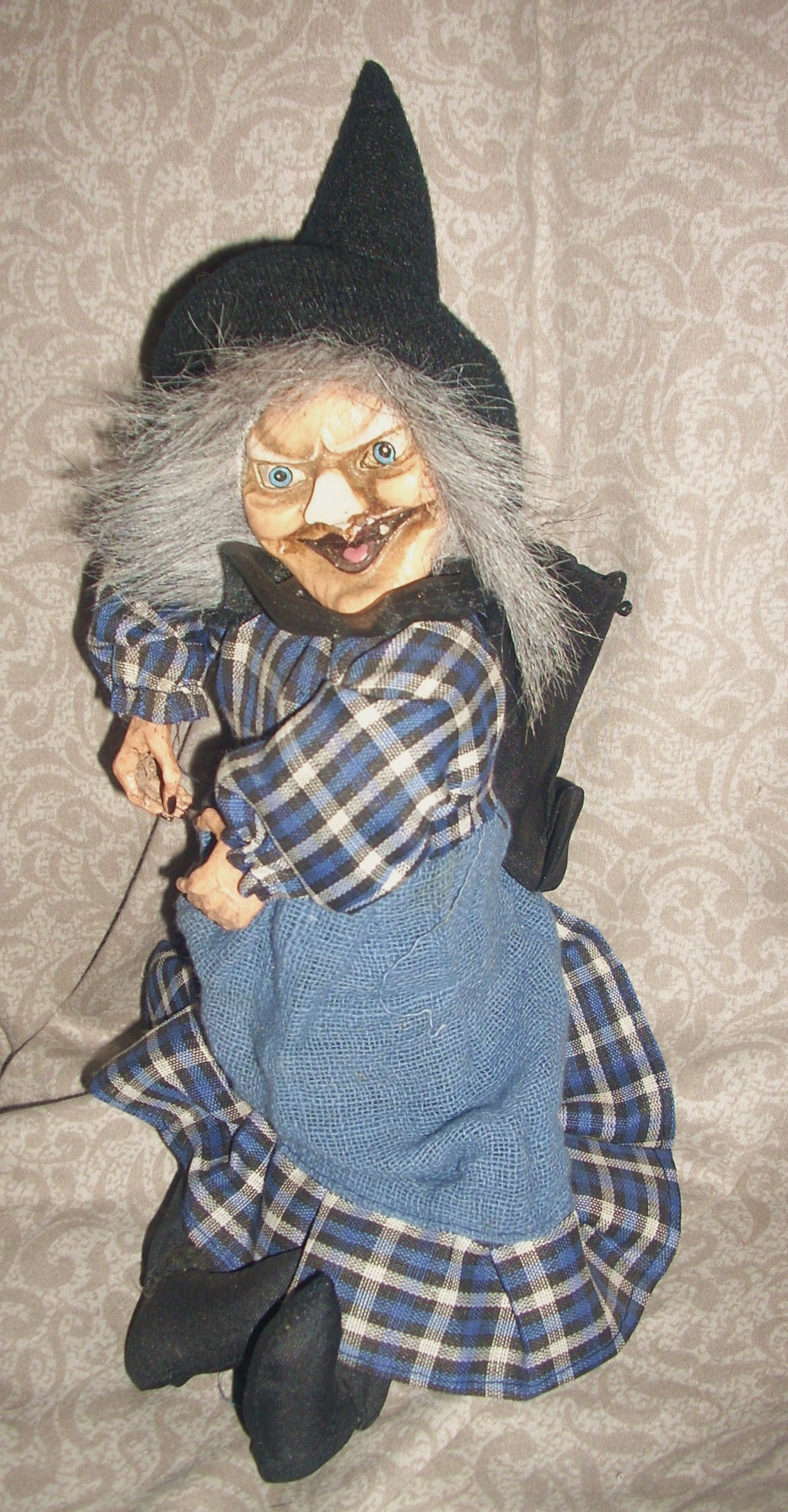 Italian witch doll La Befana